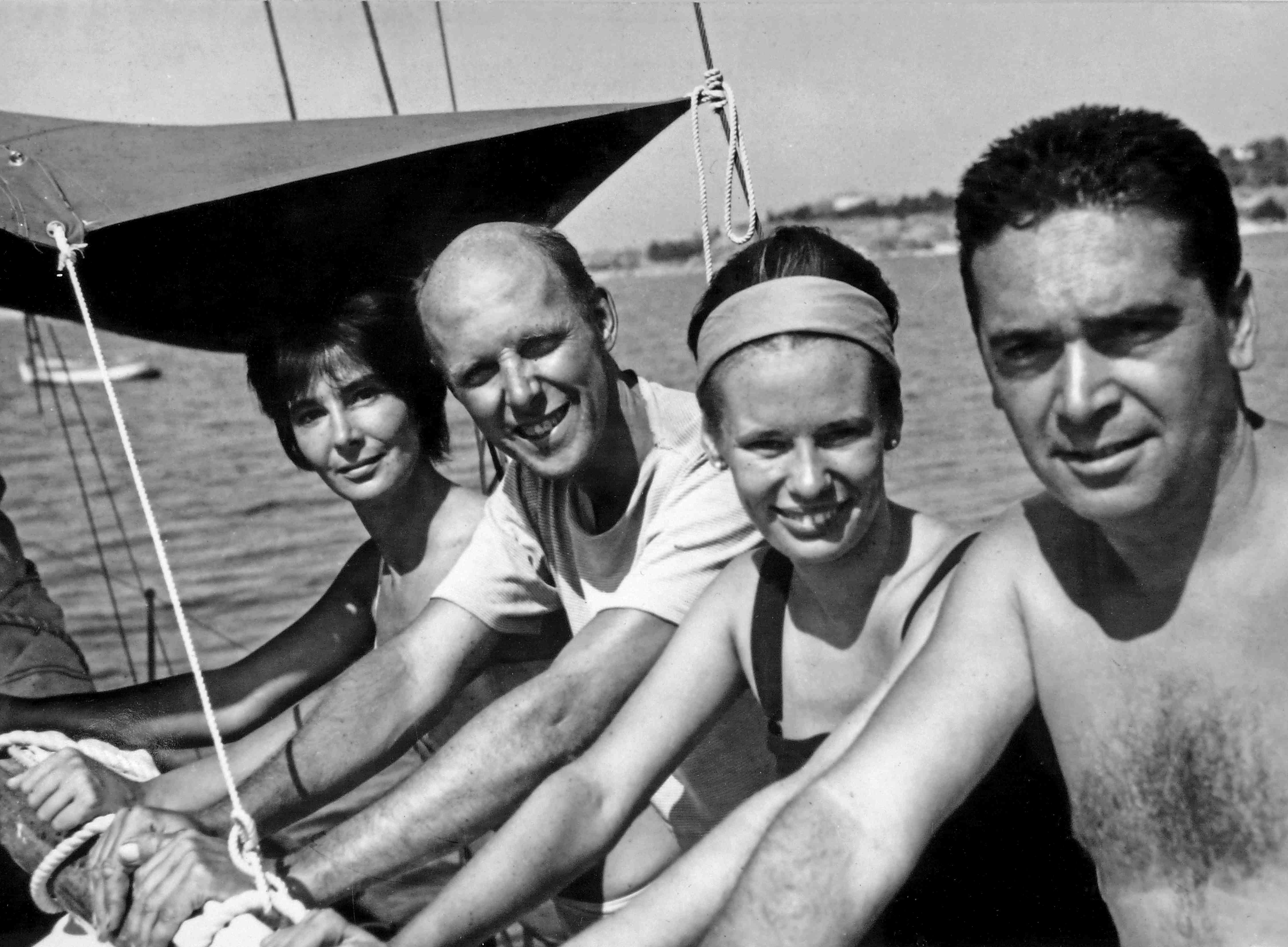 Photograph of (from left): Annusca/Anuskha Palme (wife of swedish actor Ulf Palme, her full name being Anna Maria Larussa), Göran Schildt, Christine Werthmann (Schildt married her in 1966) and their friend, the designer/architect and painter Roberto Sambonet (1924–95) onboard.